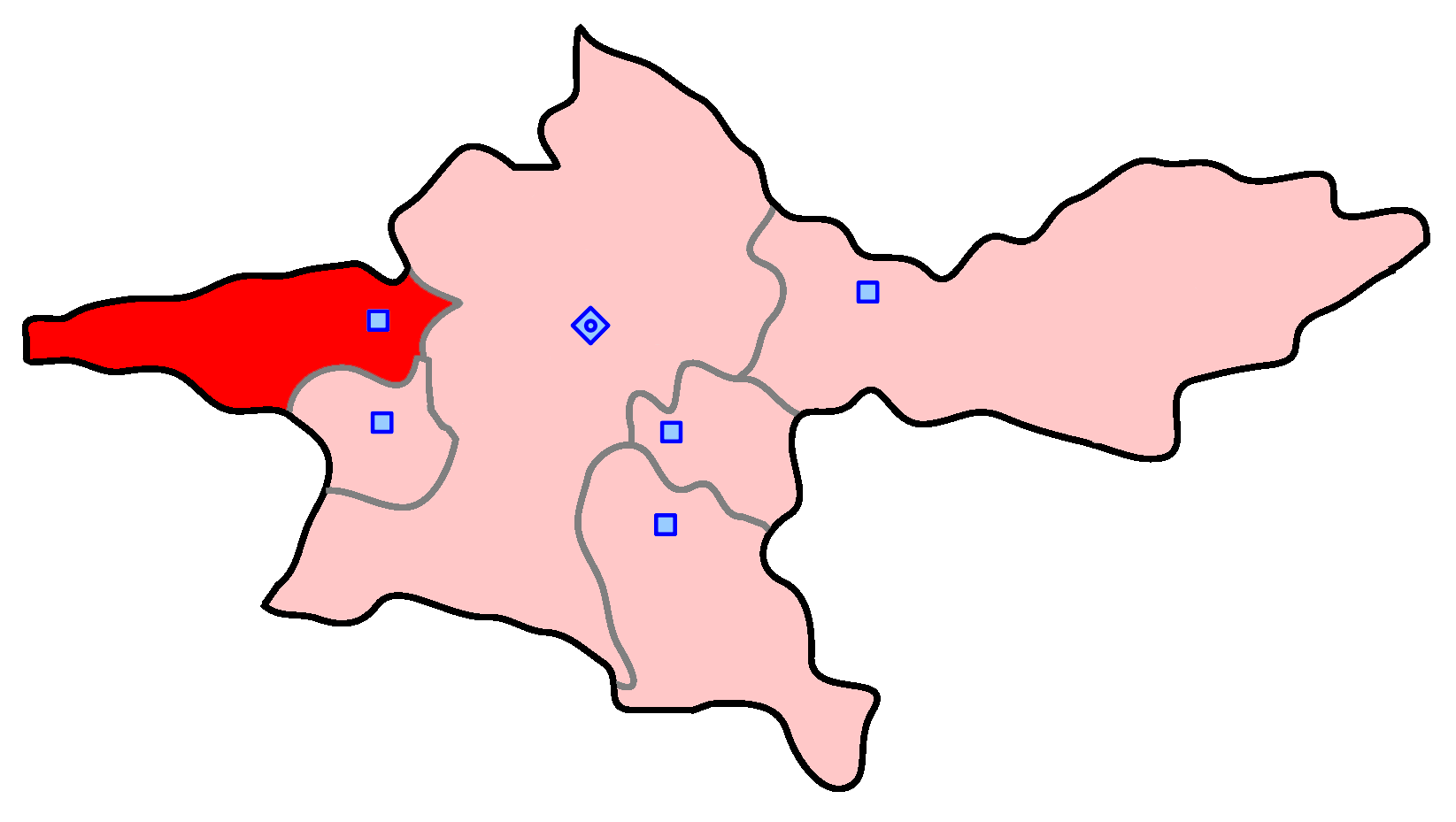 map of Robatkarim electoral district, Tehran Province, Iran